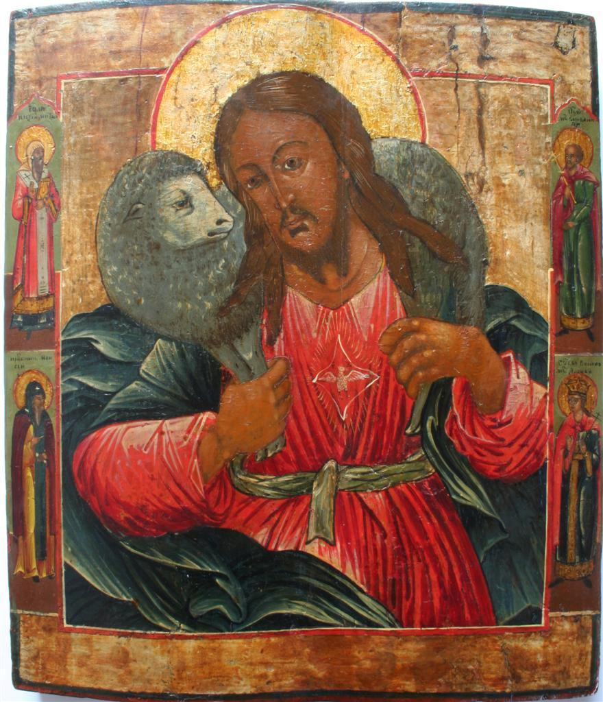 Good shepherd. Russian icon, 19 c. Niederland, private collection